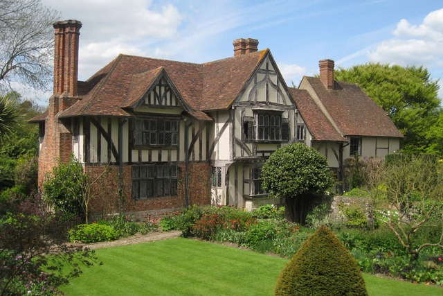 Stoneacre, Otham, Kent